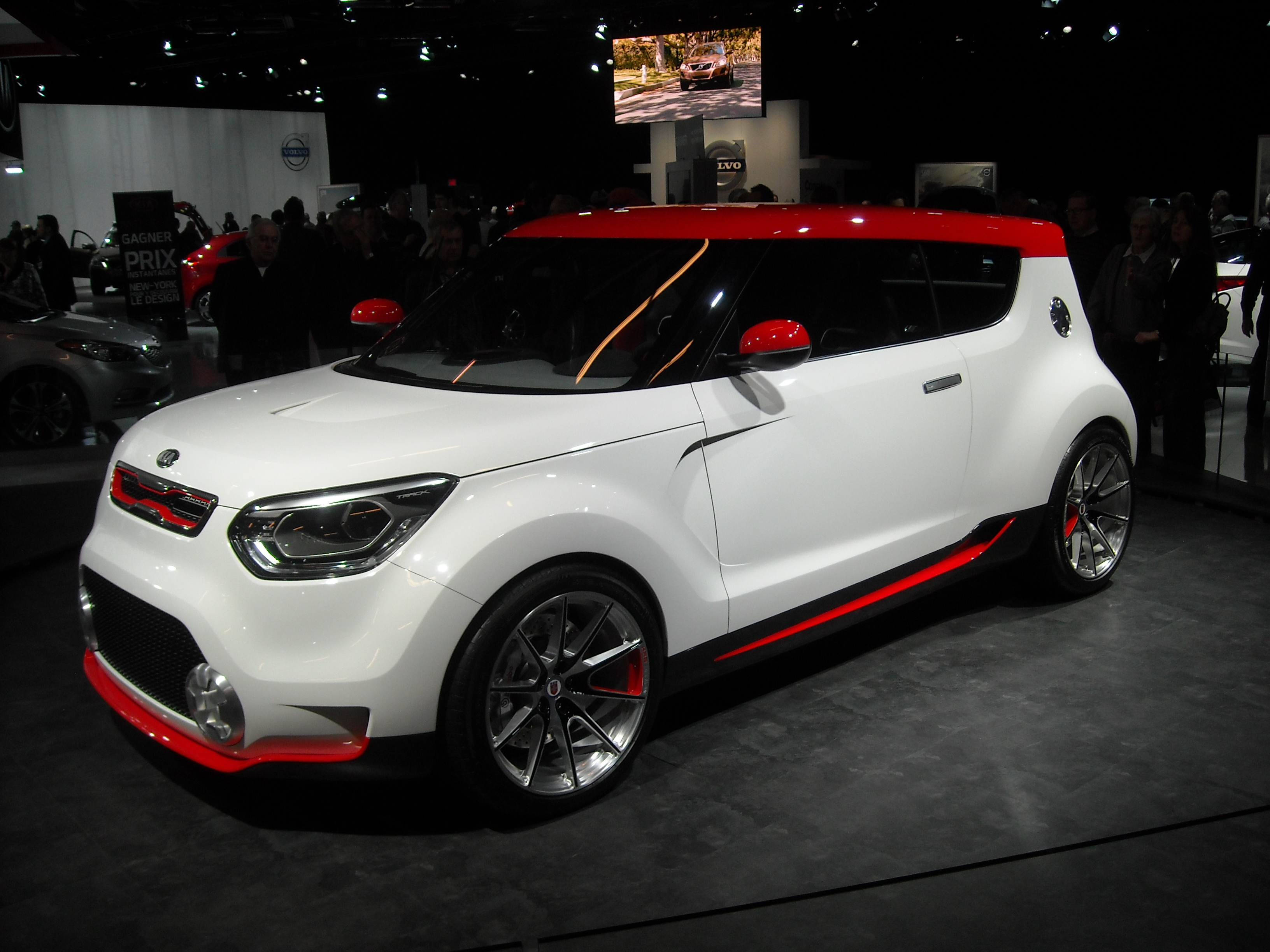 Kia Trackster concept shown at the Montreal International Auto Show